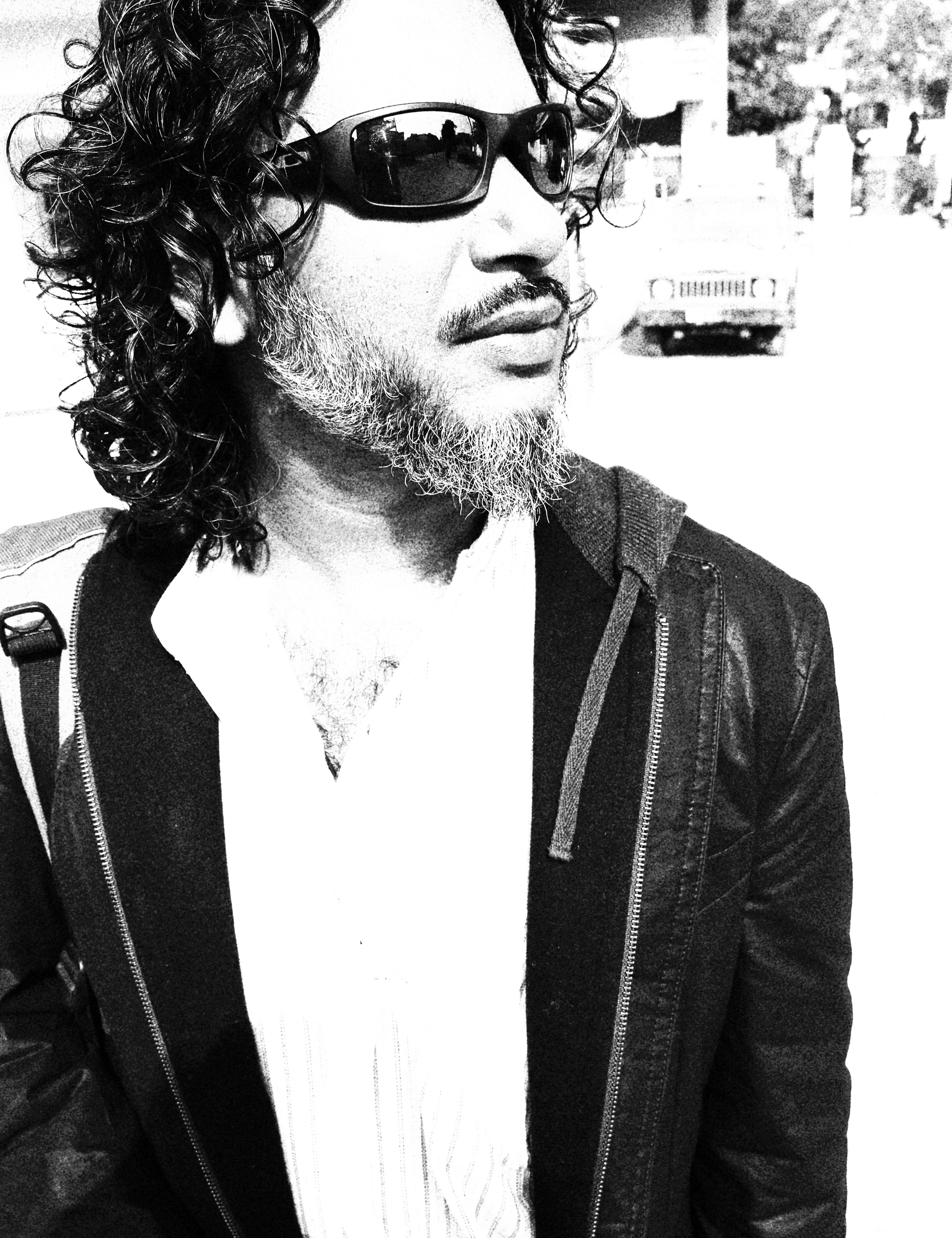 Author Shehan Karunatilake in Jaipur, Rajasthan, IN.